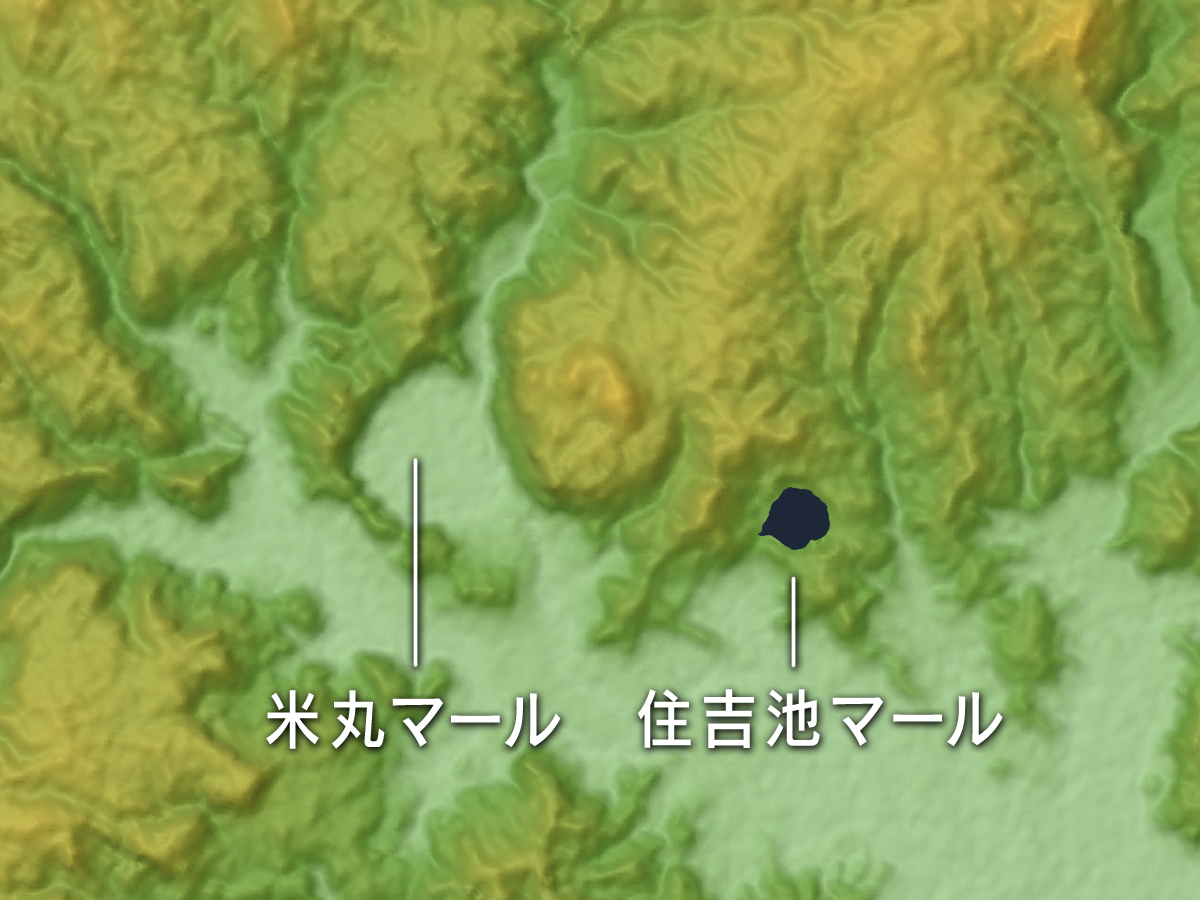 Yonemaru Volcano & Sumiyoshiike Volcano in Aira, Kagoshima Prefecture, Japan.